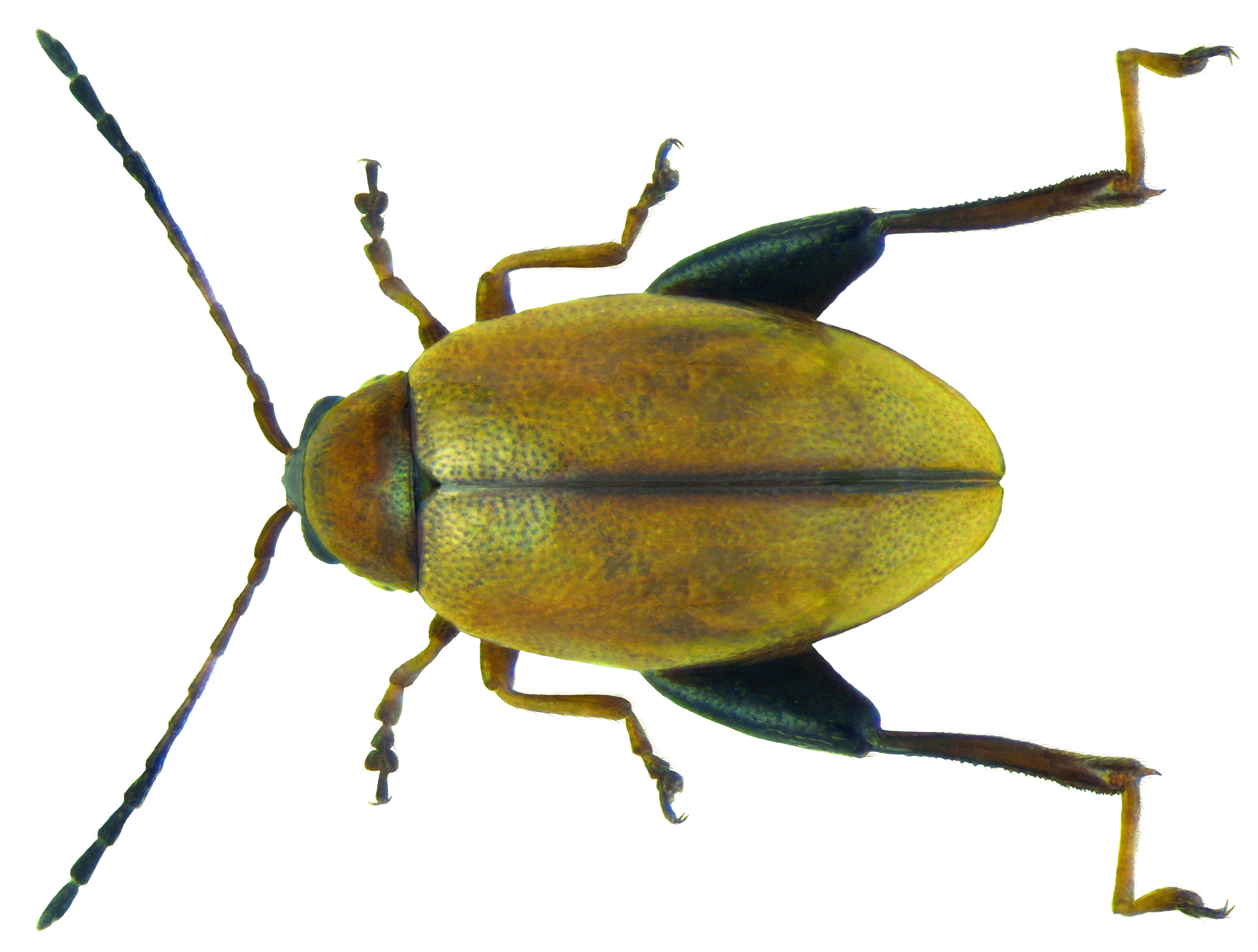 Family: Chrysomelidae Size: 2.9 to 3.0 mm Distribution: Palearctic Ecology: in Plantago species Location: Germany, Bavaria, Upper Franconia, Selby leg det. U.Schmidt, 2003 Photo: U.Schmidt, 2011